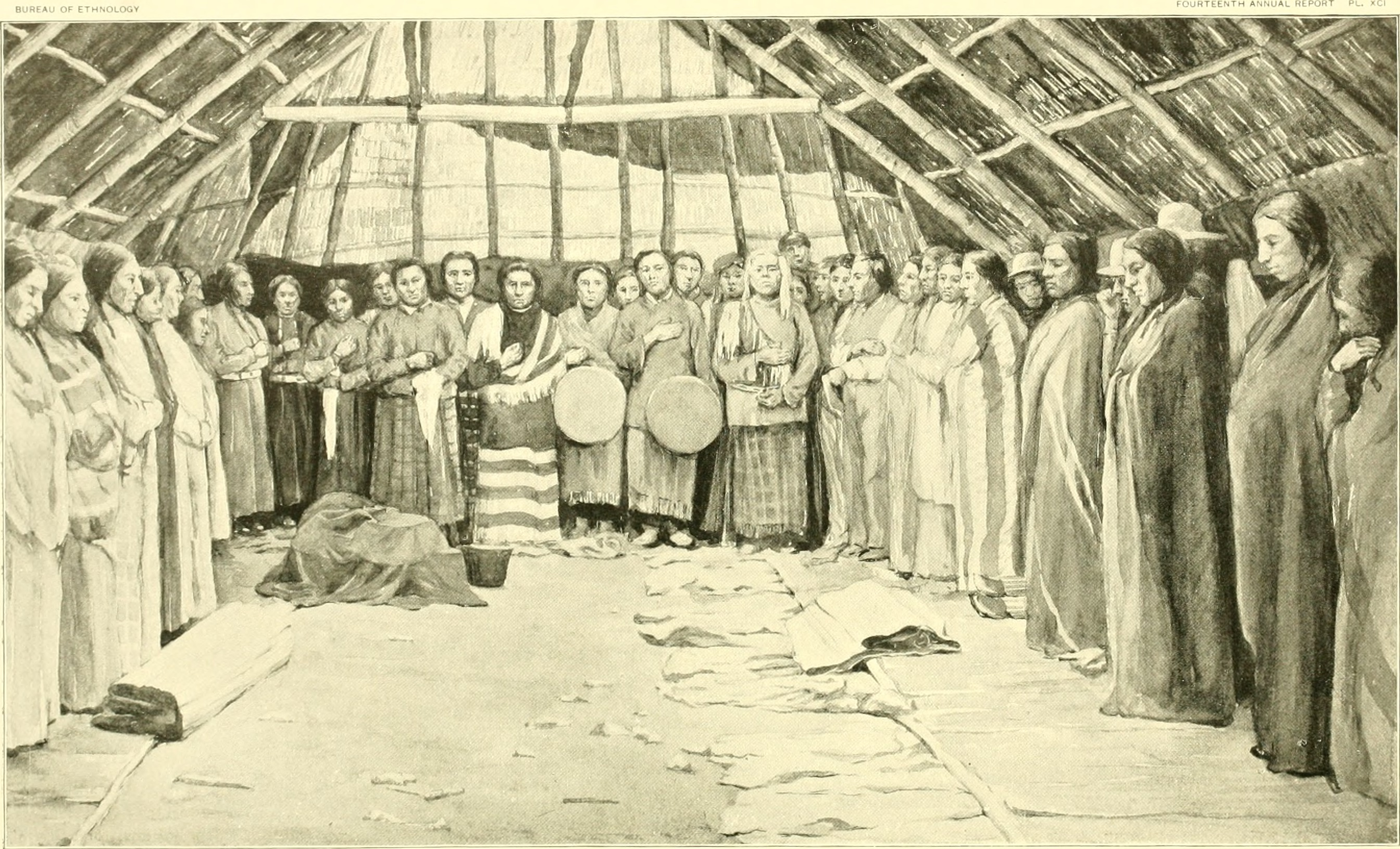 Title: Annual report of the Bureau of Ethnology to the Secretary of the Smithsonian Institution Identifier: annualreportofbu14218921893smit Year: 1880 (1880s) Authors: Smithsonian Institution. Bureau of Ethnology Subjects: Ethnology; Indians Publisher: Washington : G. P. O. Text Appearing Before Image: ' Text Appearing After Image: '